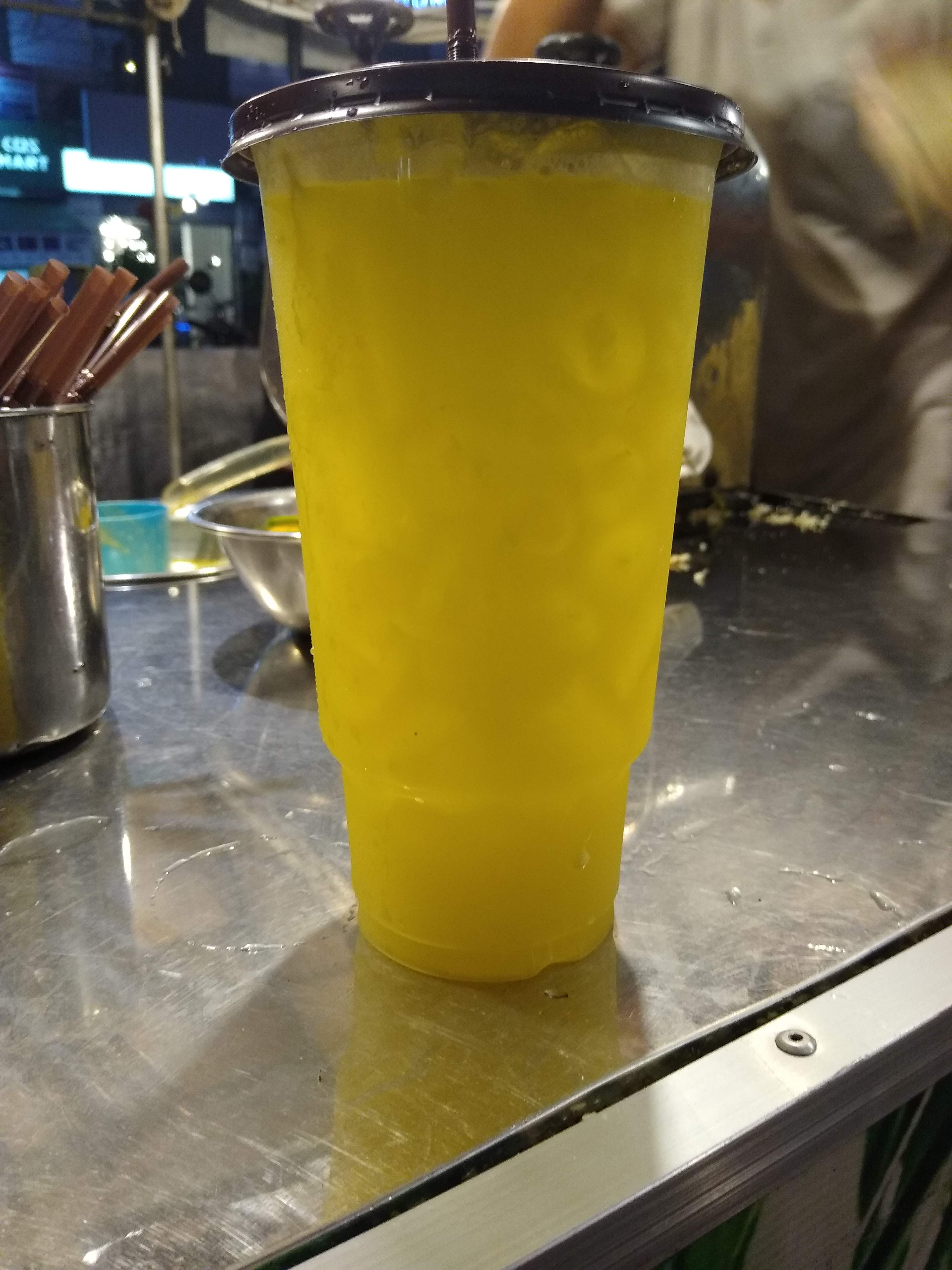 Fresh sugar cane juice at the Phnom Penh Night Market.